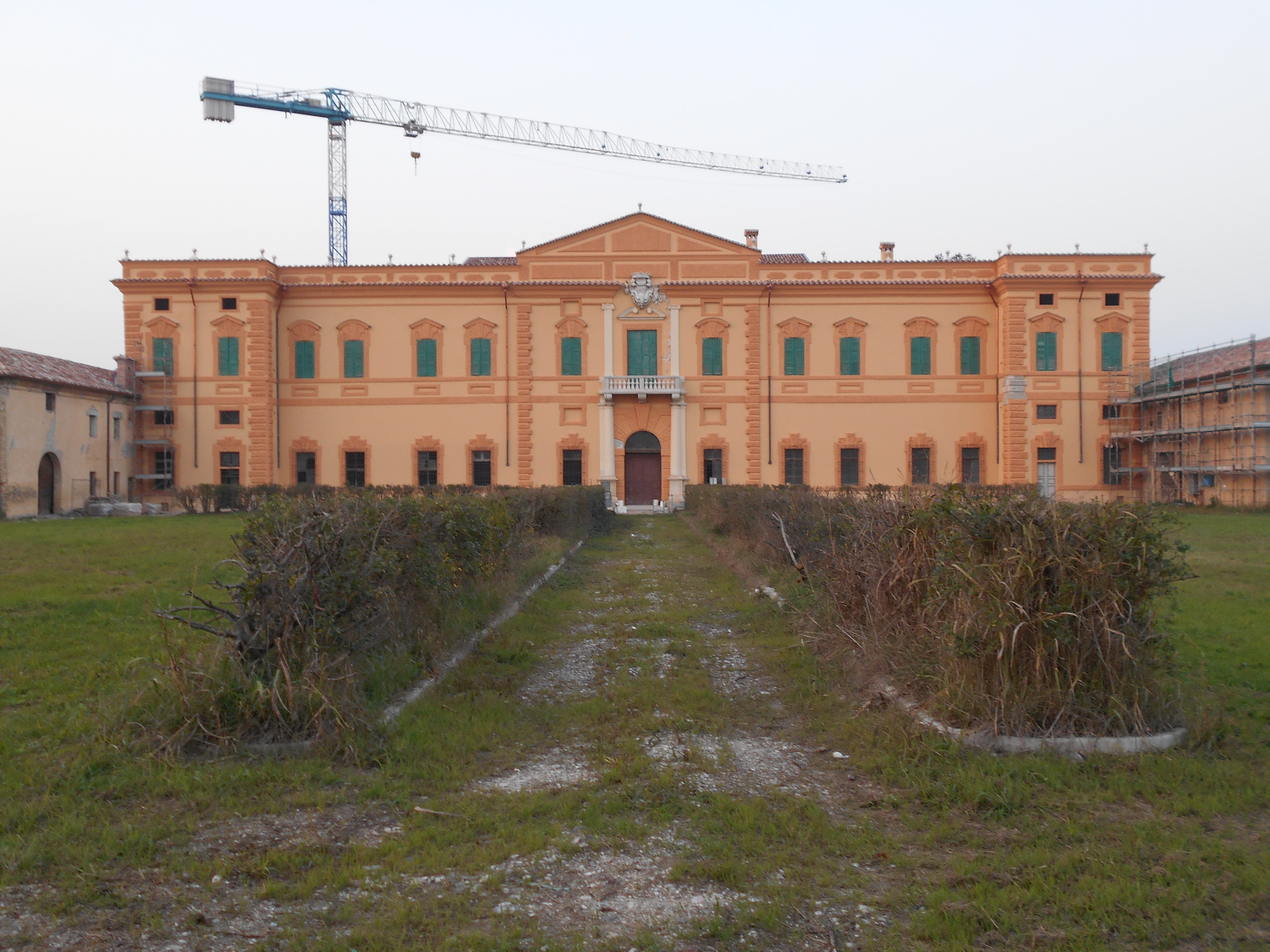 villa Arrigona